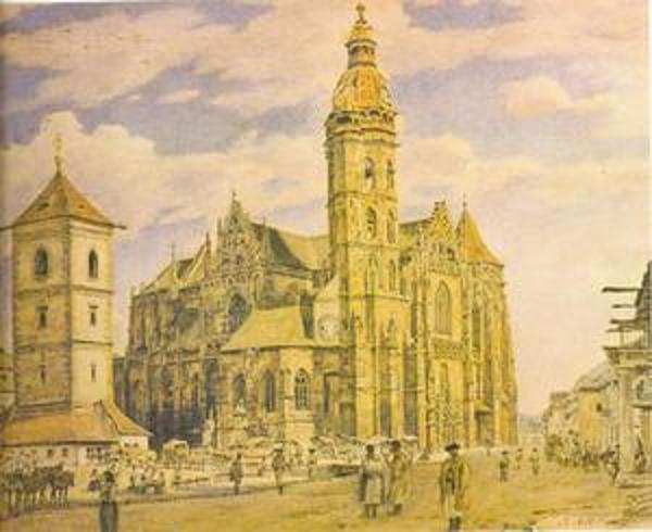 St Elisabeth Cathedral